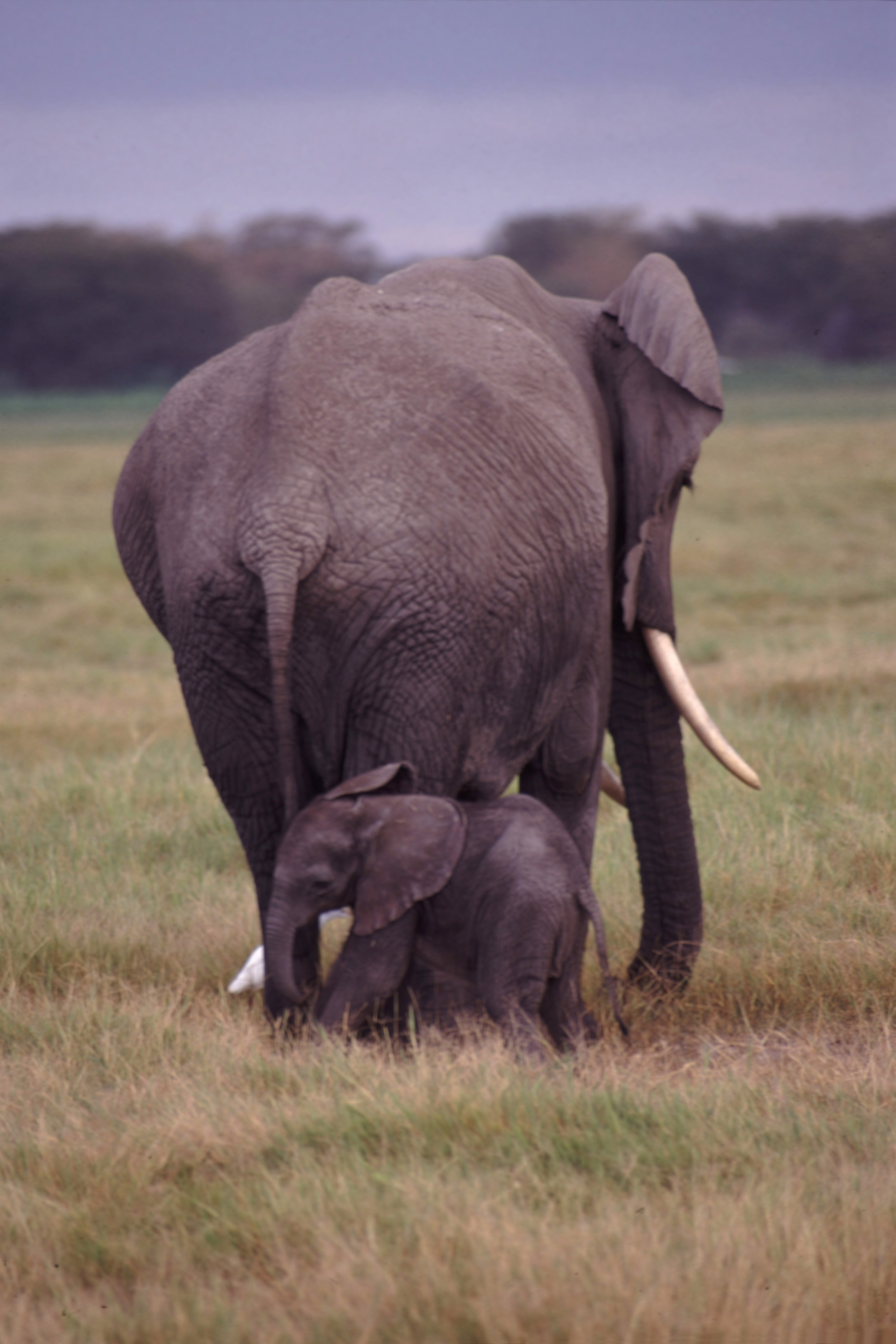 Mother elephant and baby. Taken on safari in Tanzania.